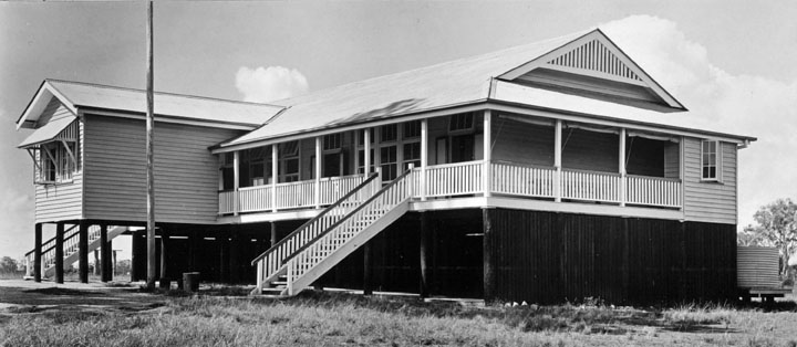 Birkdale State School, Additions and alterations.